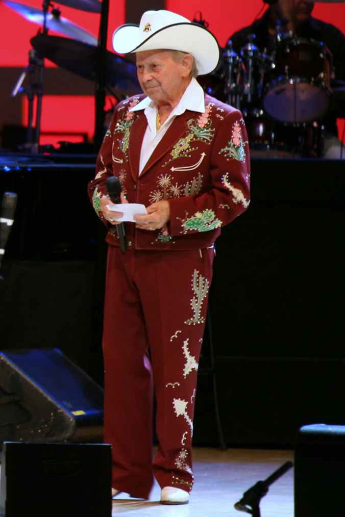 Little Jimmy Dickens at the Grand Ole Opry, 2007